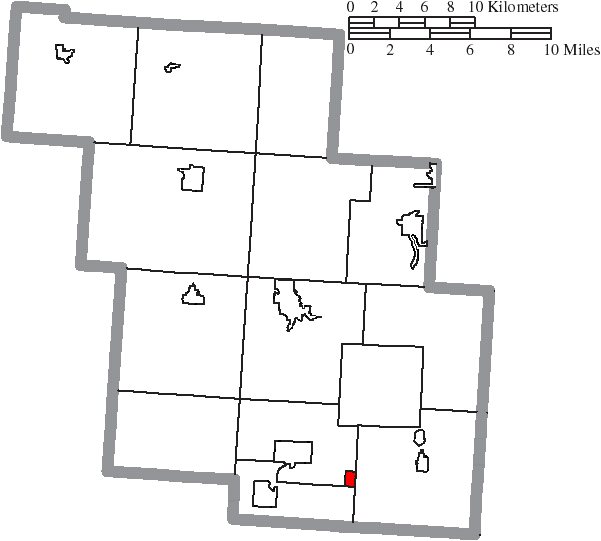 Map of the municipal and township boundaries of Perry County, Ohio, United States, as of the 2000 census, with the location of the village of Hemlock highlighted. Township borders are shown only in unincorporated areas in order to differentiate incorporated and unincorporated areas more clearly.